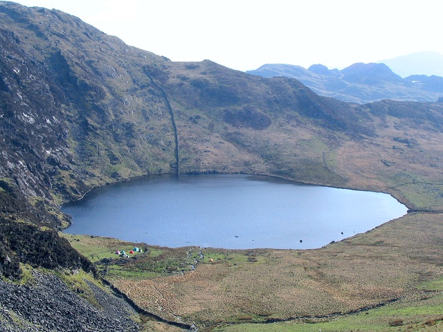 Llyn Llagi in Snowdonia. This is a view from slightly above the lake on the north side, taken while descending the right of way north of Cnicht back to the Nanmor valley. The lake is half surrounded by a bowl shaped cliff which must provide good shelter for all the tents pictured on the northeast shore.